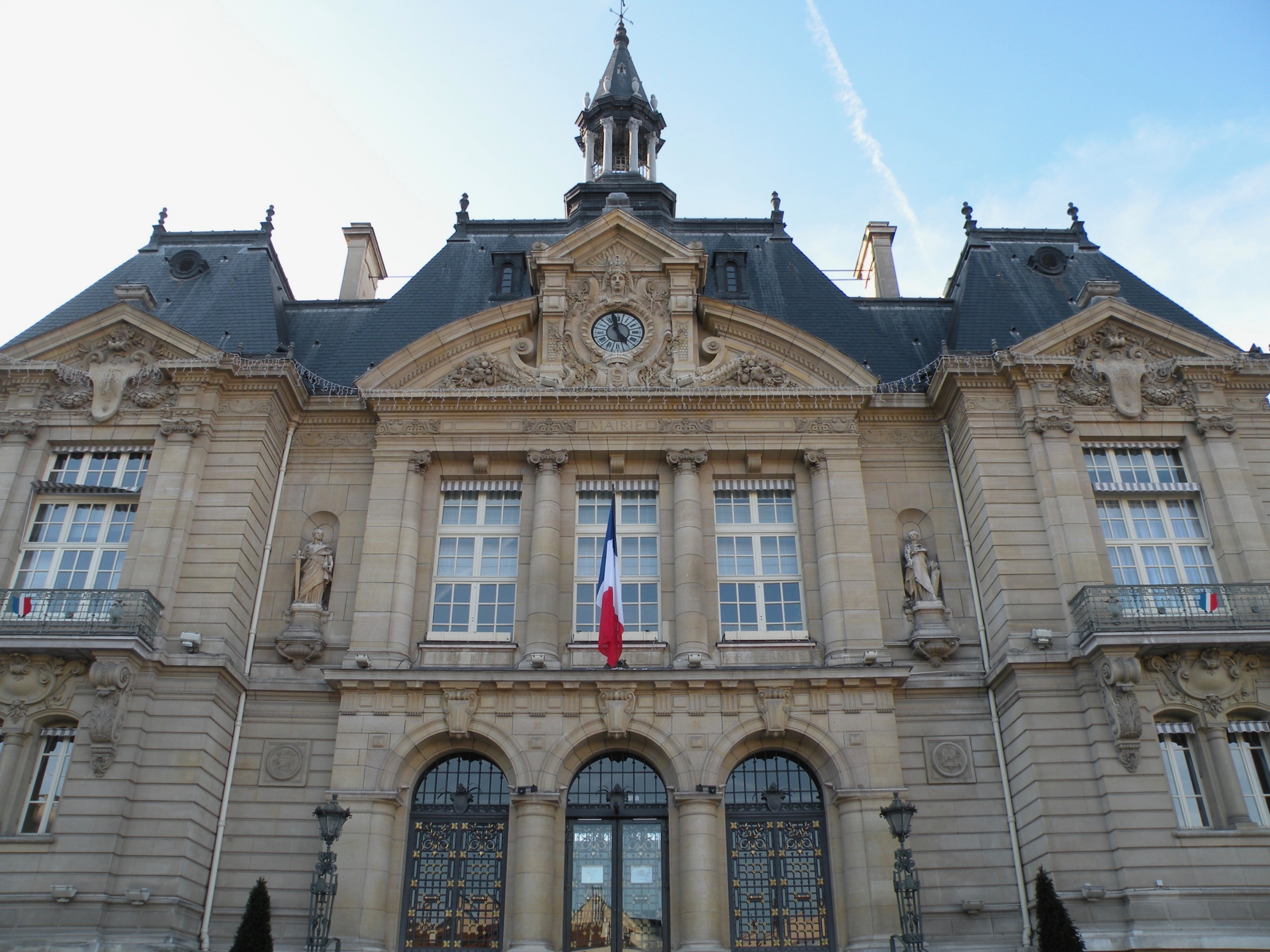 Town hall of Suresnes